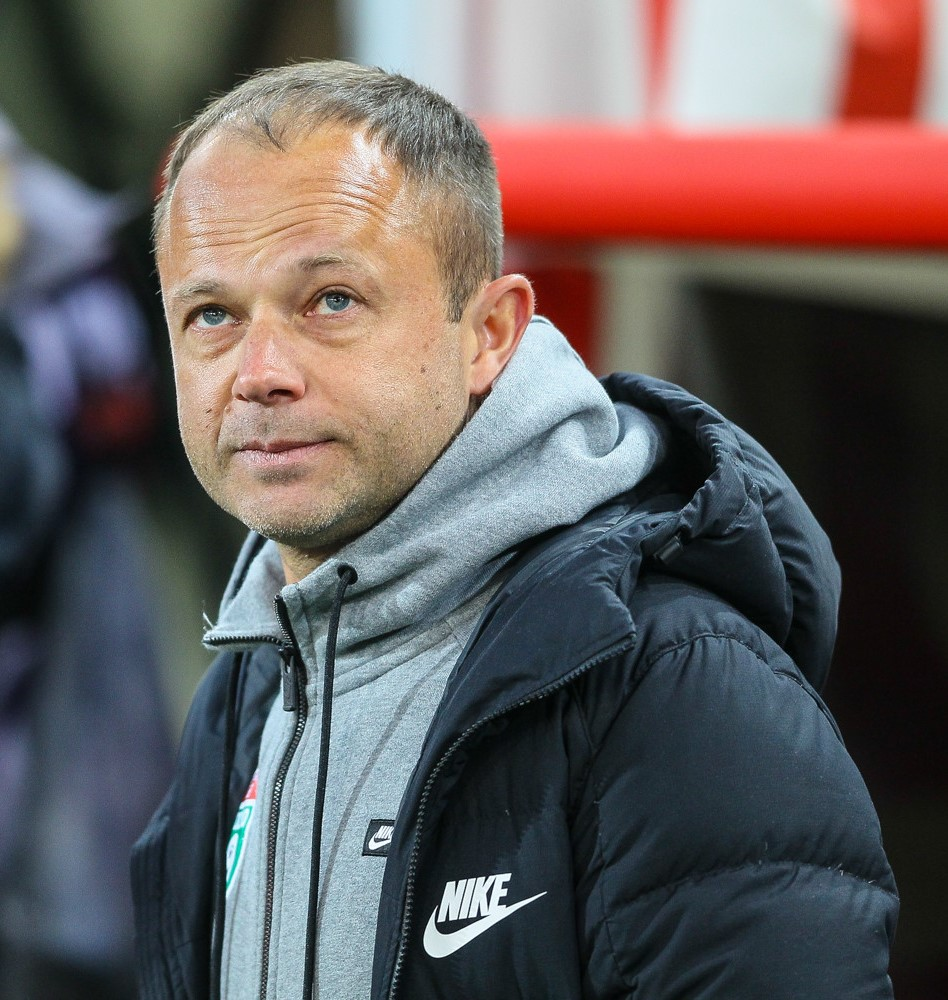 Dmytry Parfenov